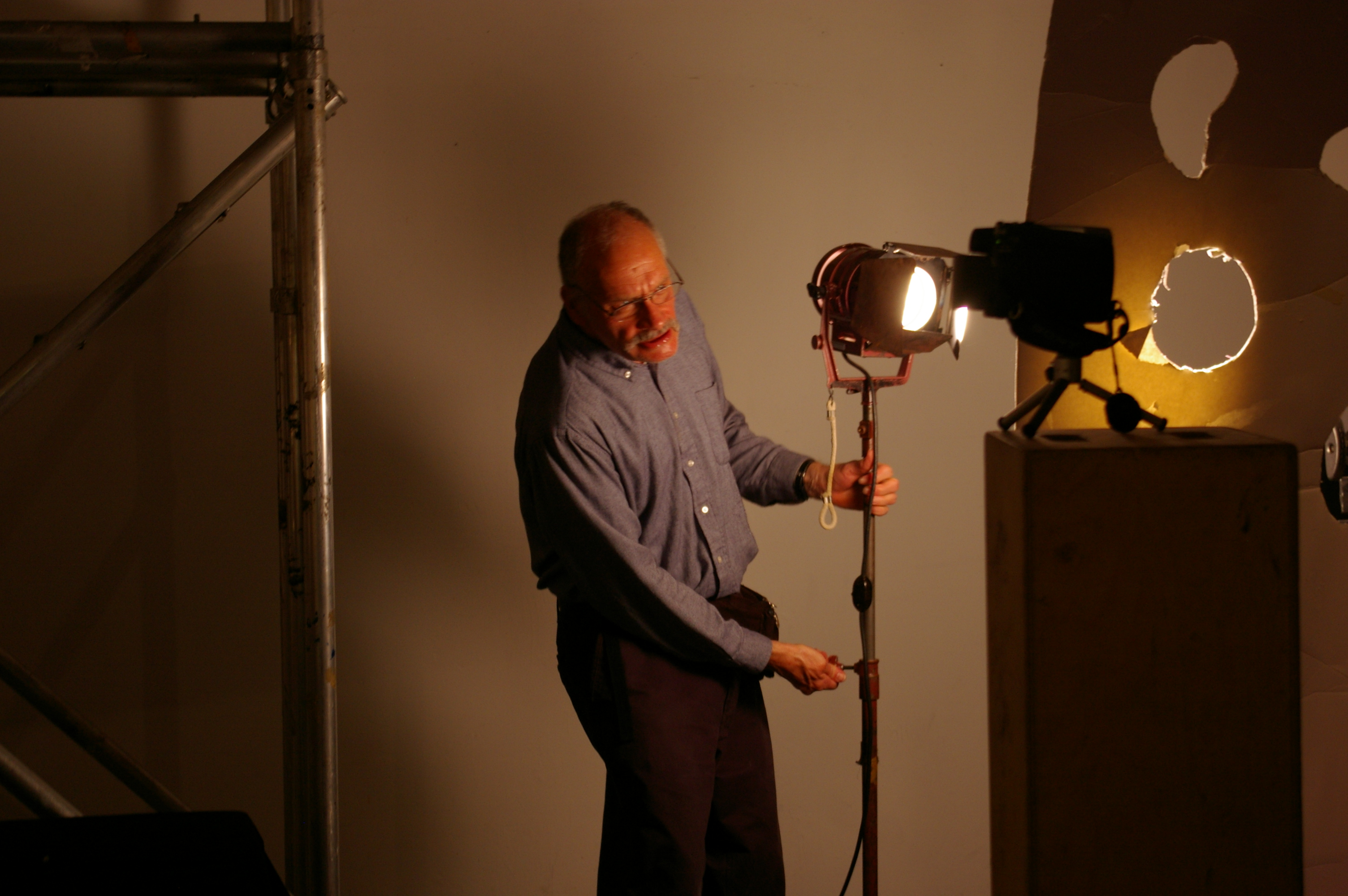 George Kuchar on set during production of his 2008 film, "Orphans of the Cosmos."